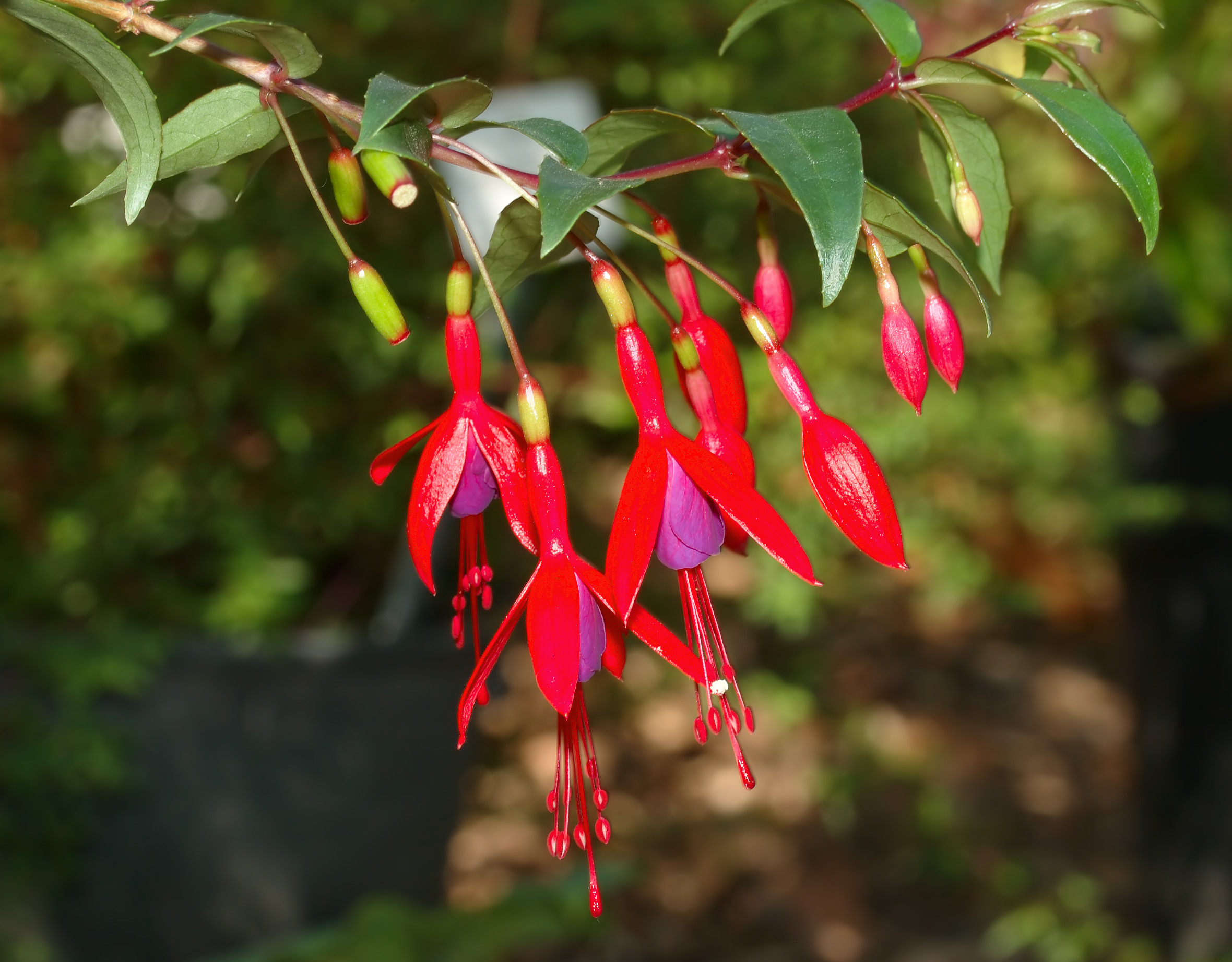 This image shows a plant of the species Fuchsia regia.